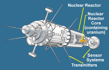 Cosmos-954 satellite artist rendition Note: The image is a pure phantasy depiction and has nothing in common with the real Cosmos-954 (RORSAT) and should not be used to illustrate articles on Cosmos-954 or RORSAT